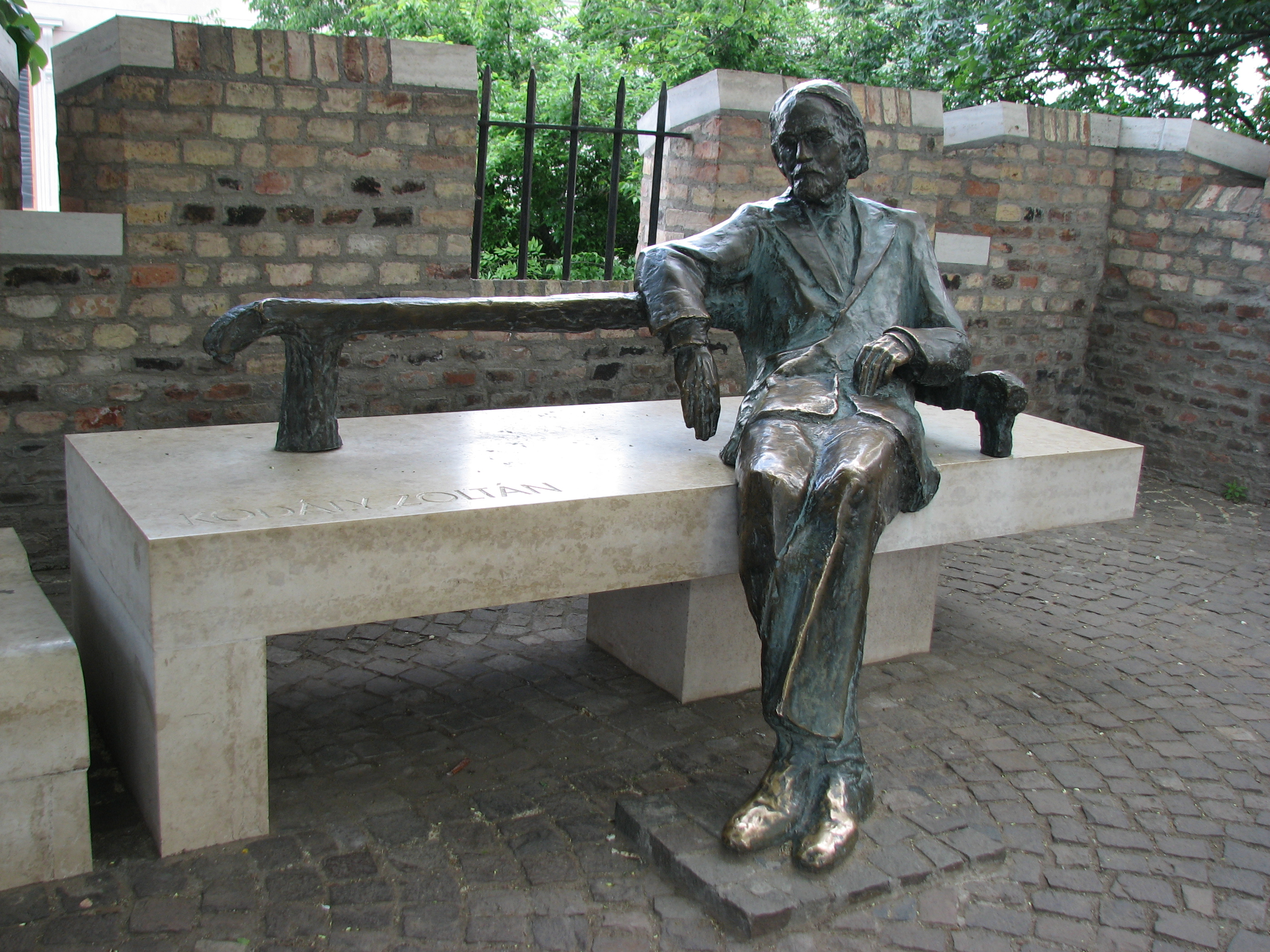 Zoltan Kodaly (Hungarian Composer) Budapest